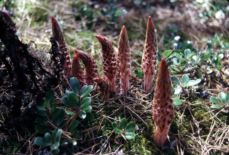 Allotropa virgata at Humboldt Bay National Wildlife Refuge Complex, California, USA